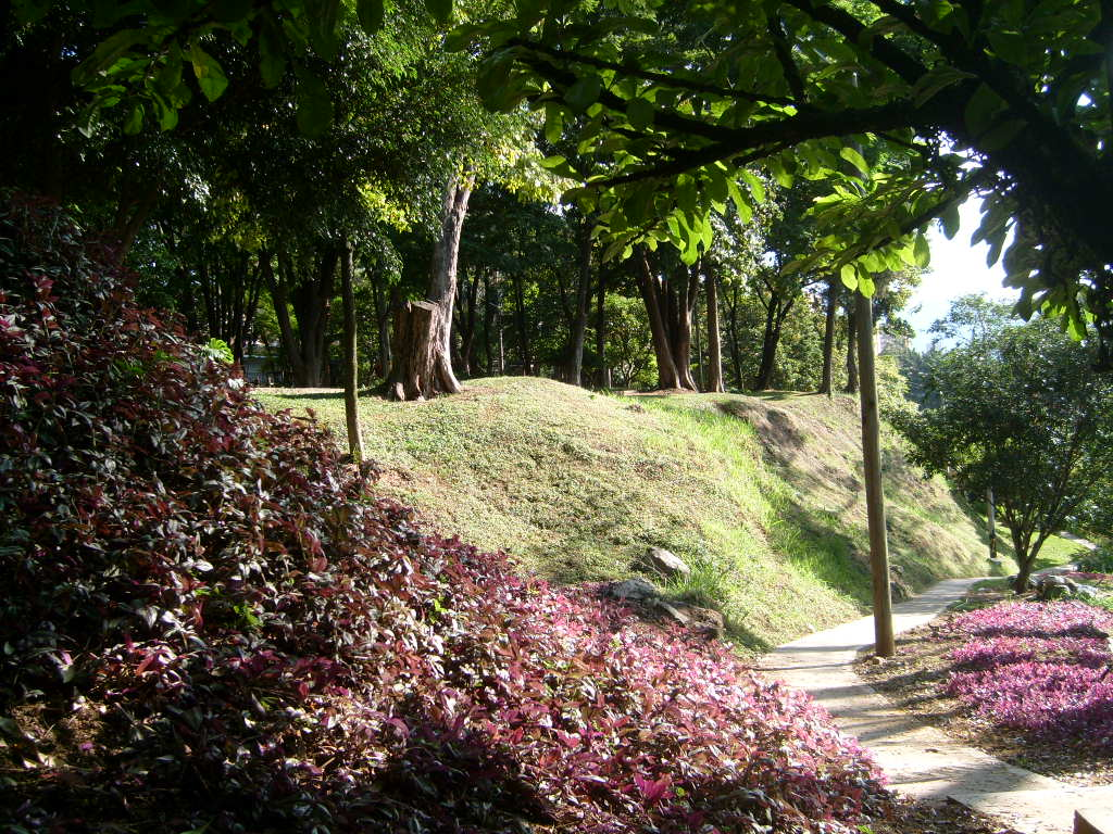 Park of the dancer Isabel Cristina Restrepo Cardenas